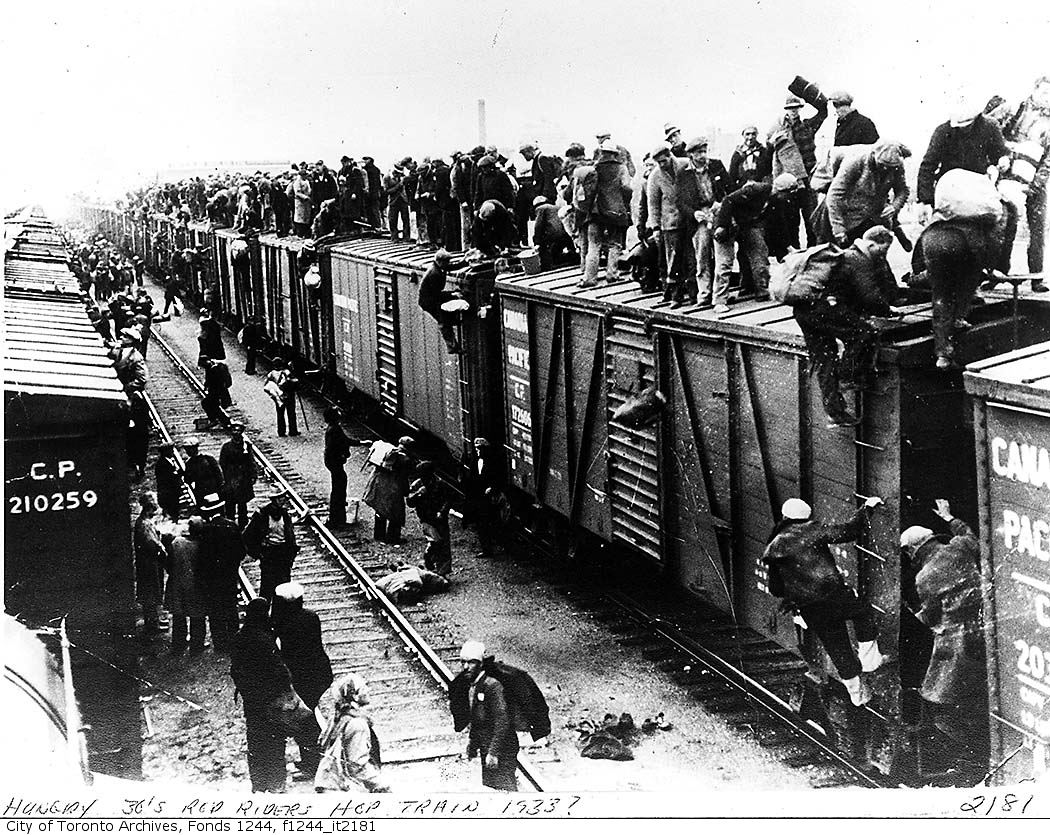 Unemployed men hop train. Canada.